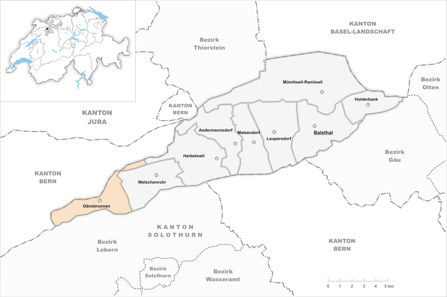 Municipality Gänsbrunnen